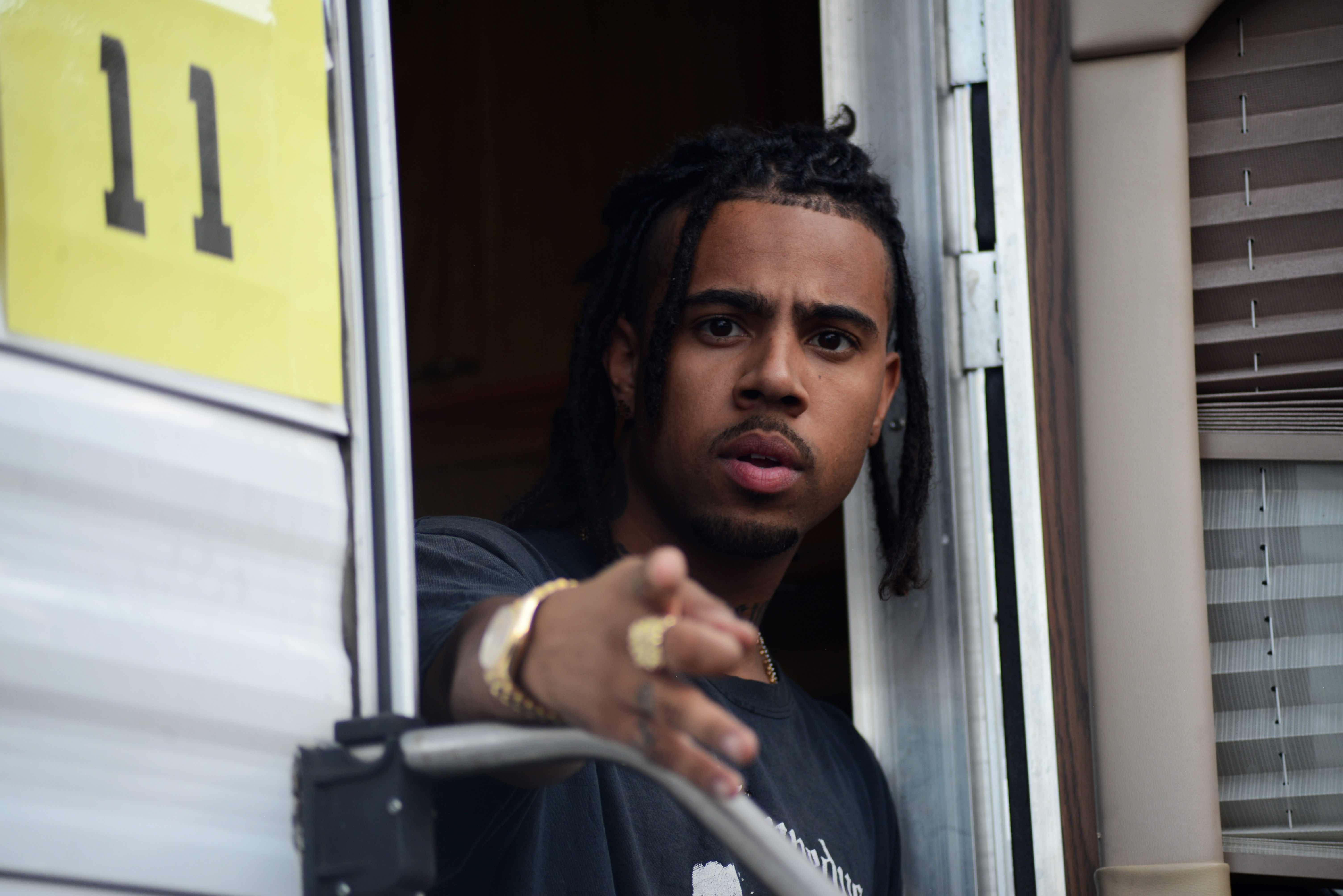 Vic Mensa Backstage